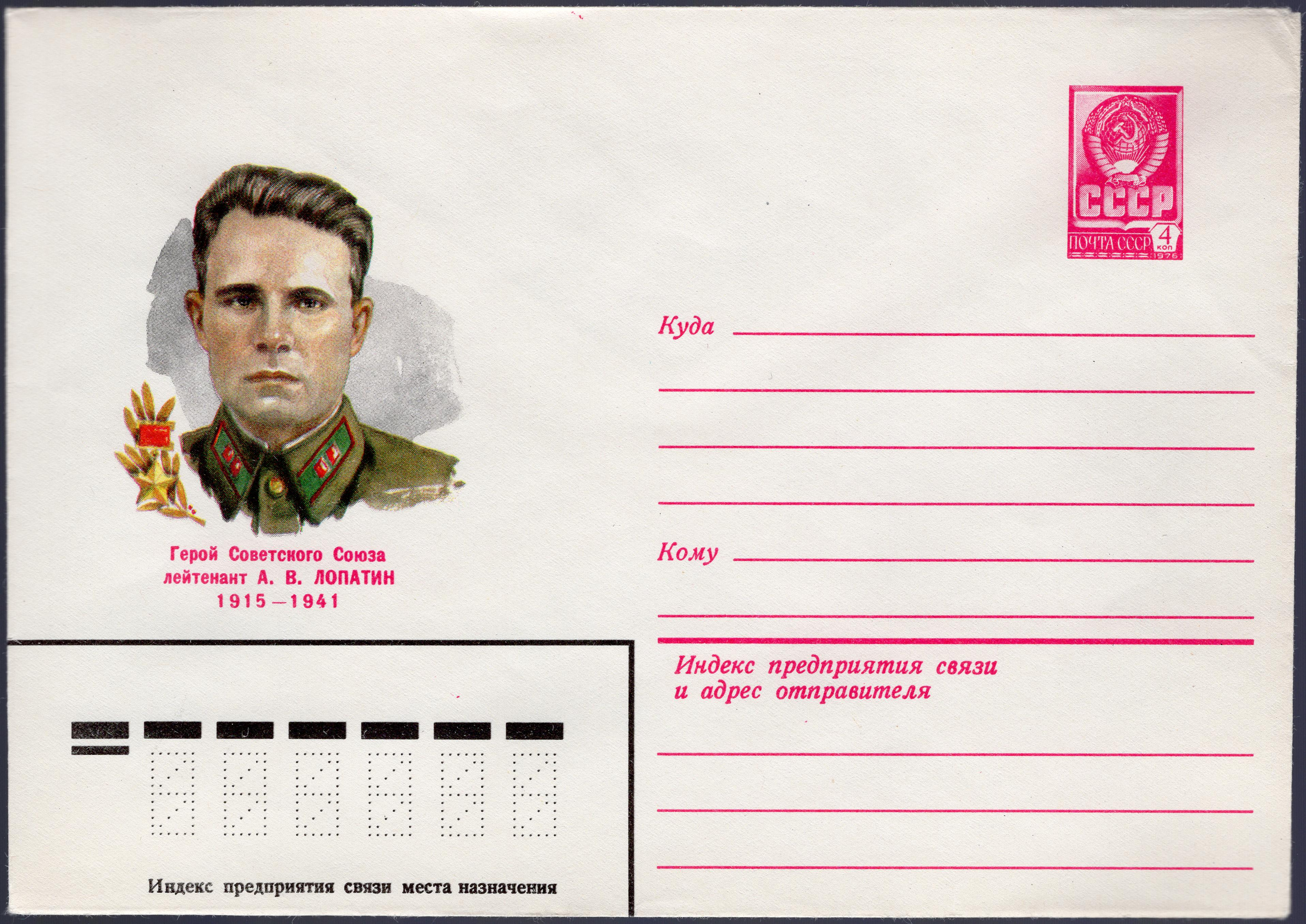 Hero of the Soviet Union Lieutenant Aleksey Vasilyevich Lopatin. 1915-1941. Series: Heroes of the Soviet Union. Artist Peter Bendel.